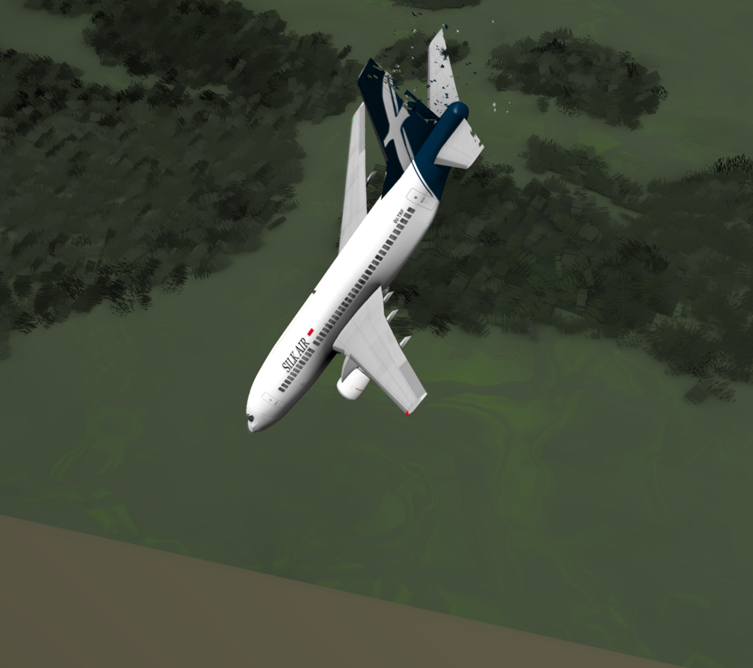 Silk Air Flight 185 (1997) - artist's depiction of crash.